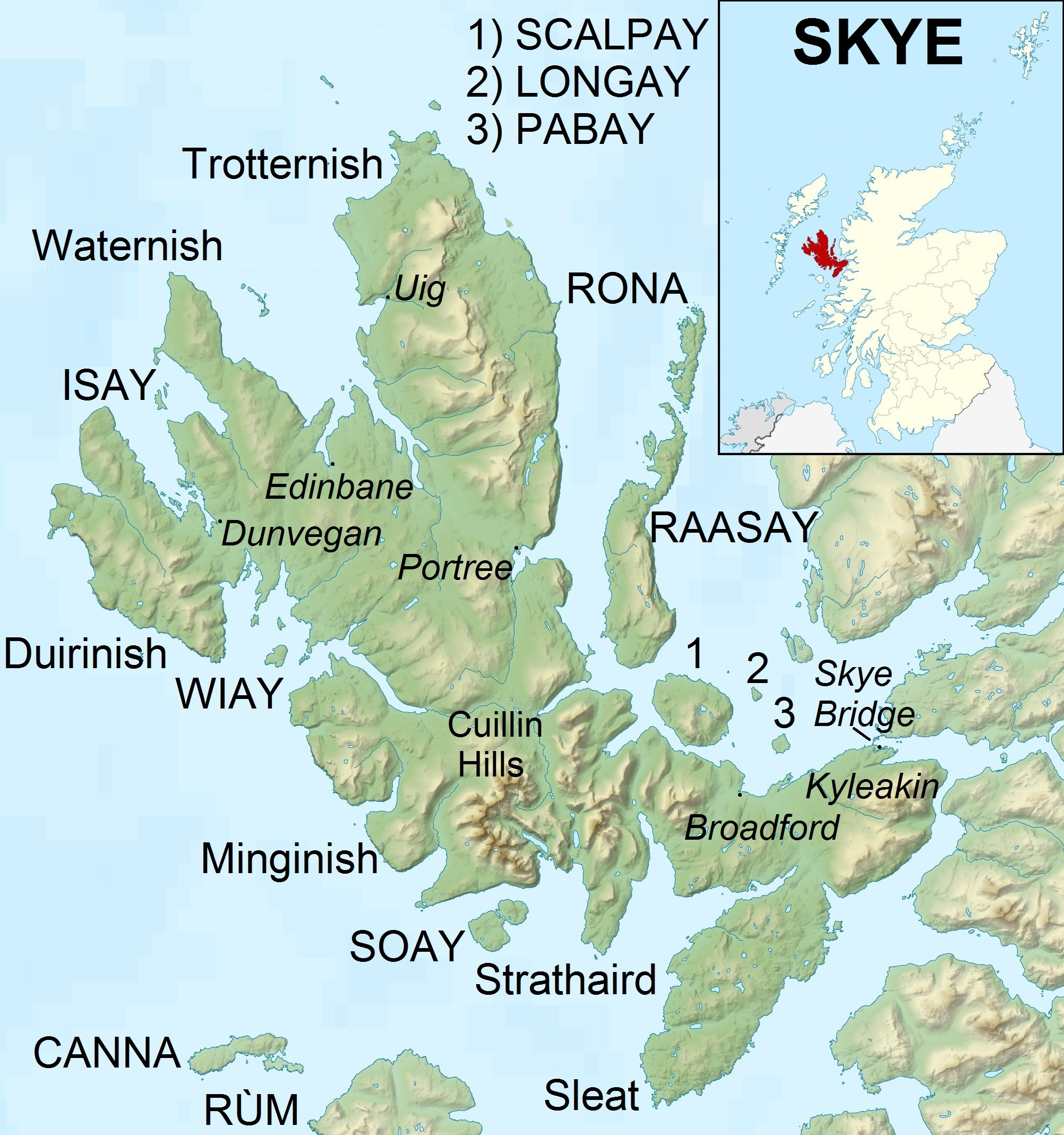 Relief map of the Isle of Skye, UK. Equirectangular map projection on WGS 84 datum, with N/S stretched 180% Geographic limits: West: 6.85W East: 5.5W North: 57.8N South: 57.0N